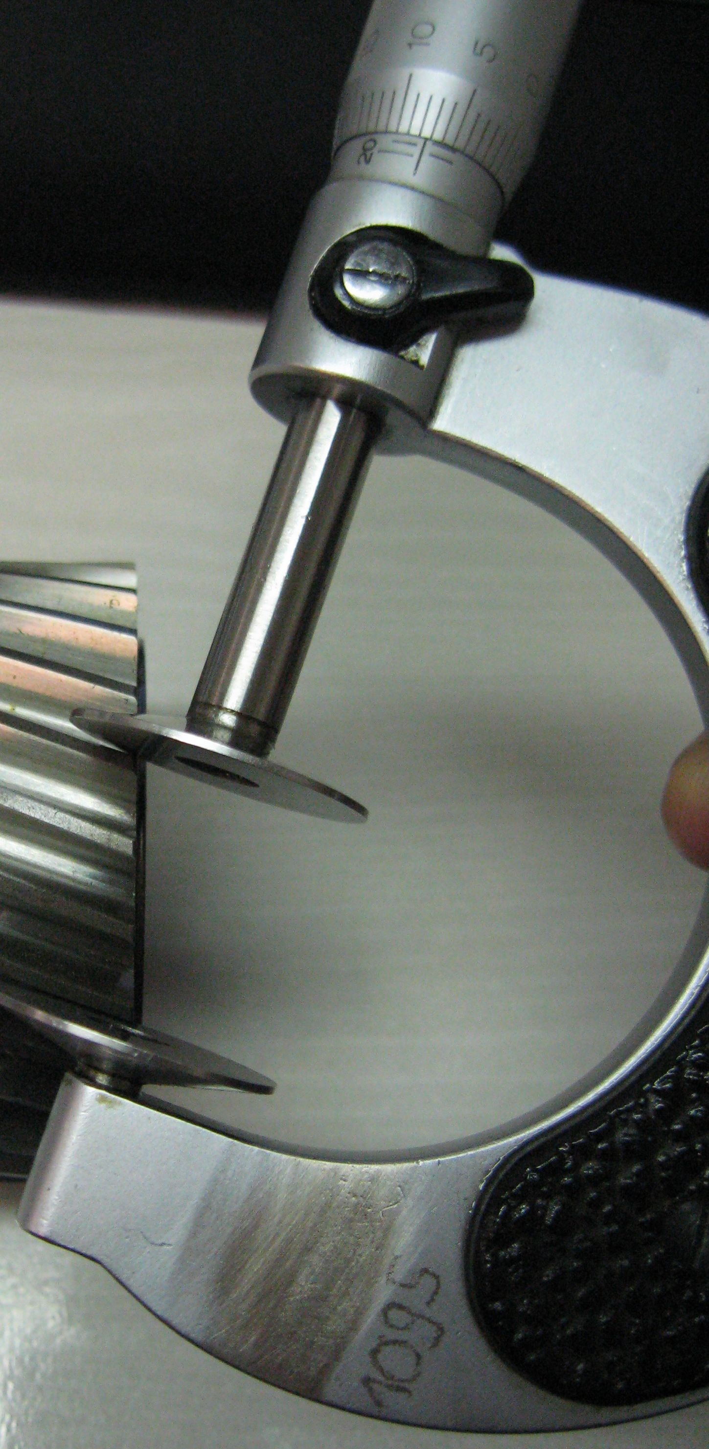 Problems when measuring the Tooth Width on a helical Gear